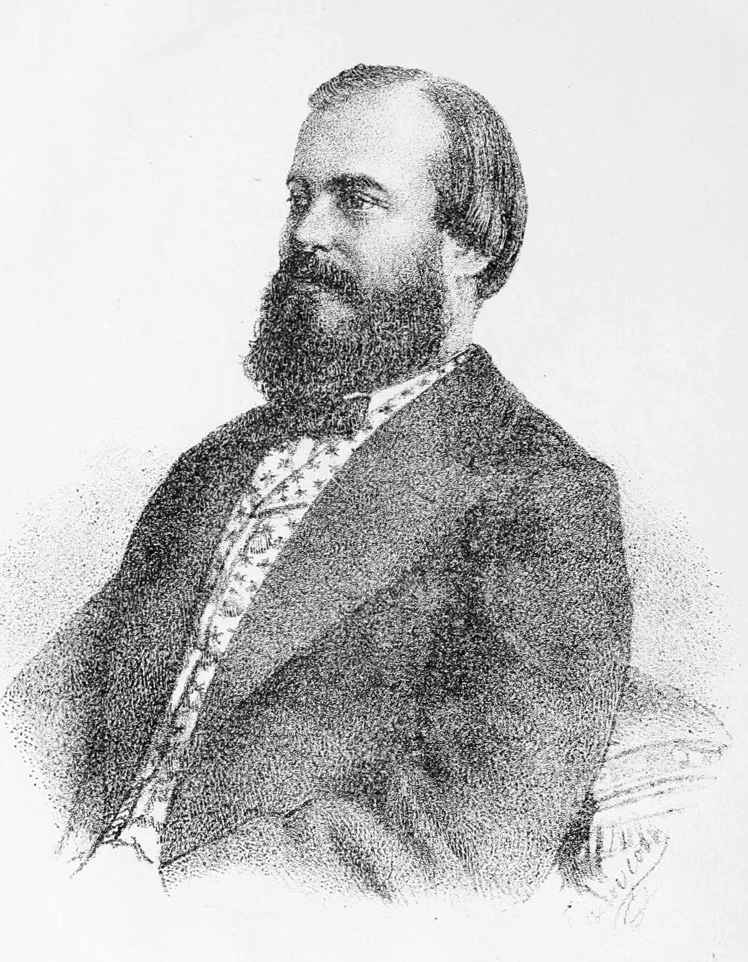 Russian Novelist Grigory Petrovich Danilevsky in 1869